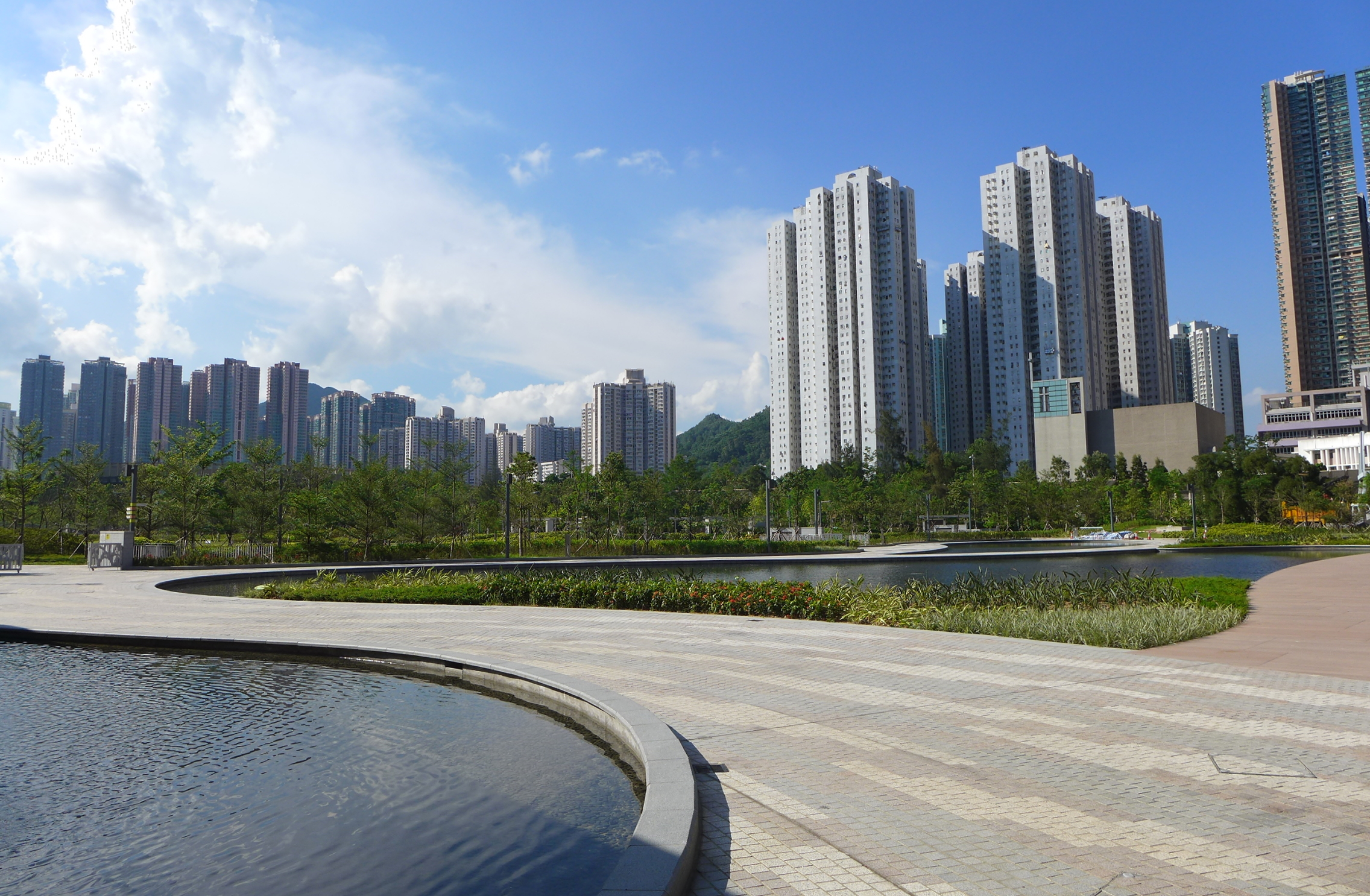 Tseung Kwan O Town Park Artificial Lake